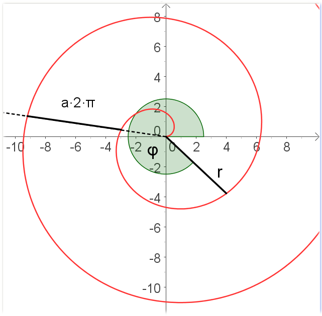 archimedean spiral and parameters